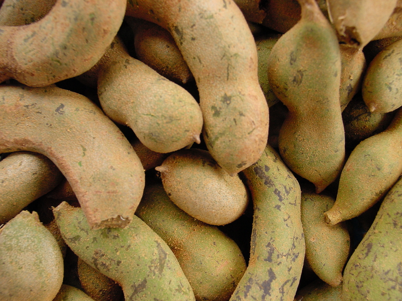 Native Philippine Tamarind